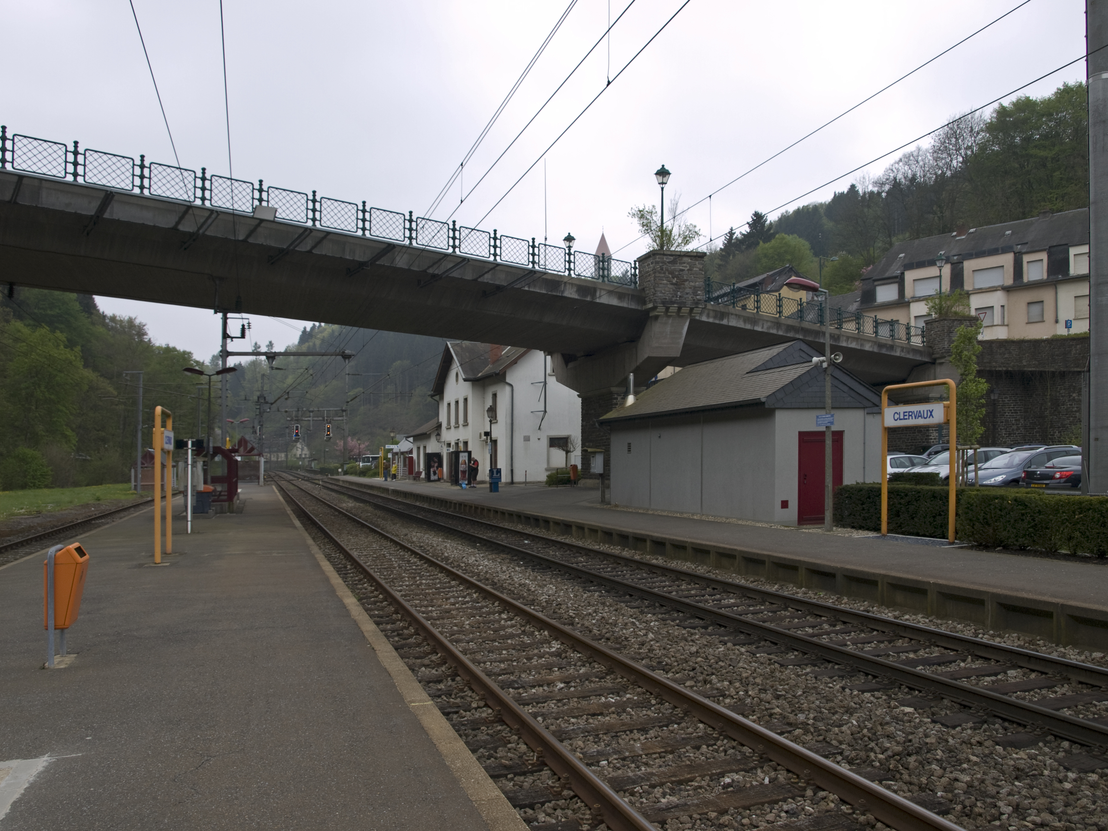 Clervaux railway station, view to the south